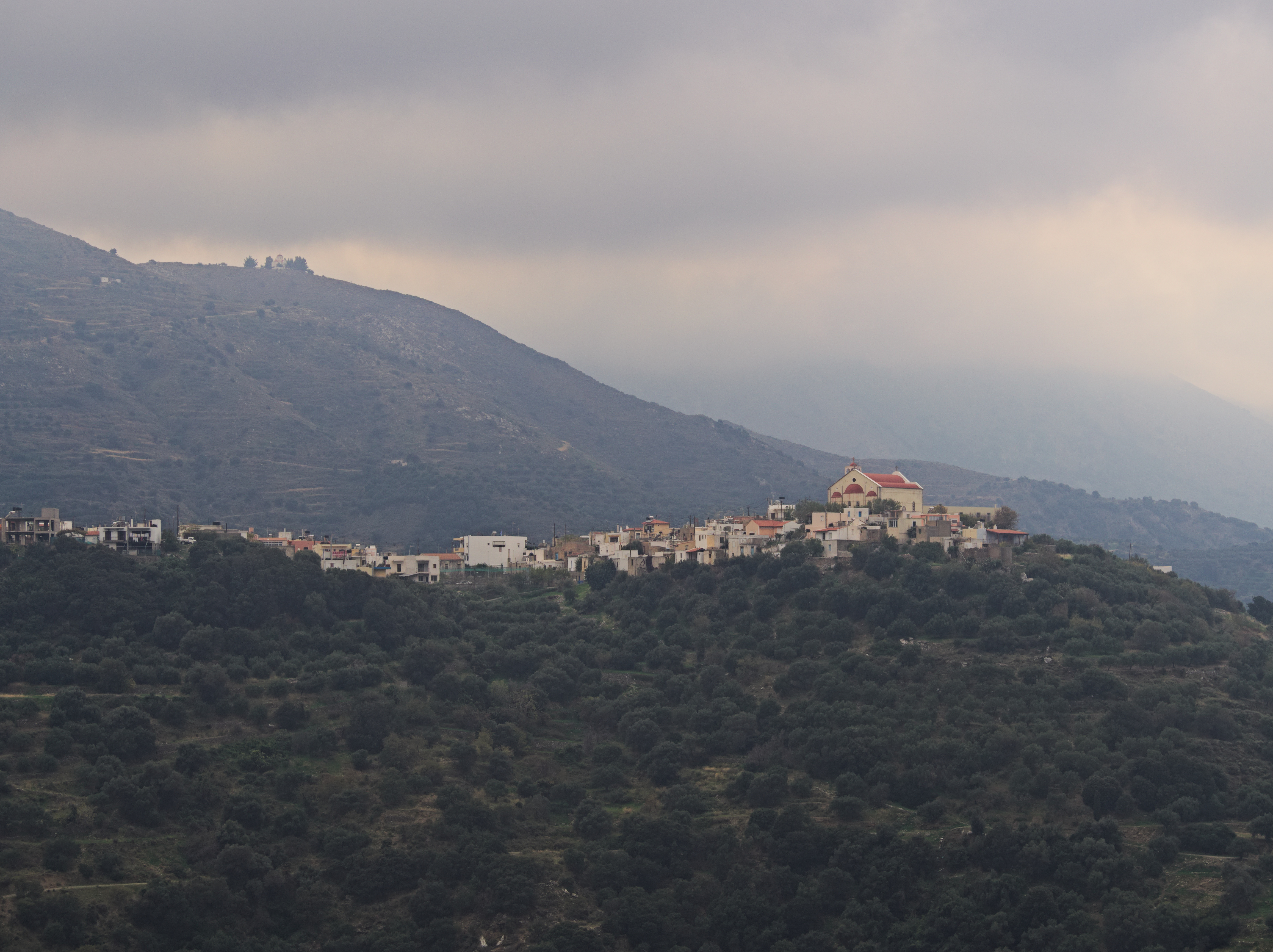 View of Tourloti, Sitia municipality, from Myrsini.